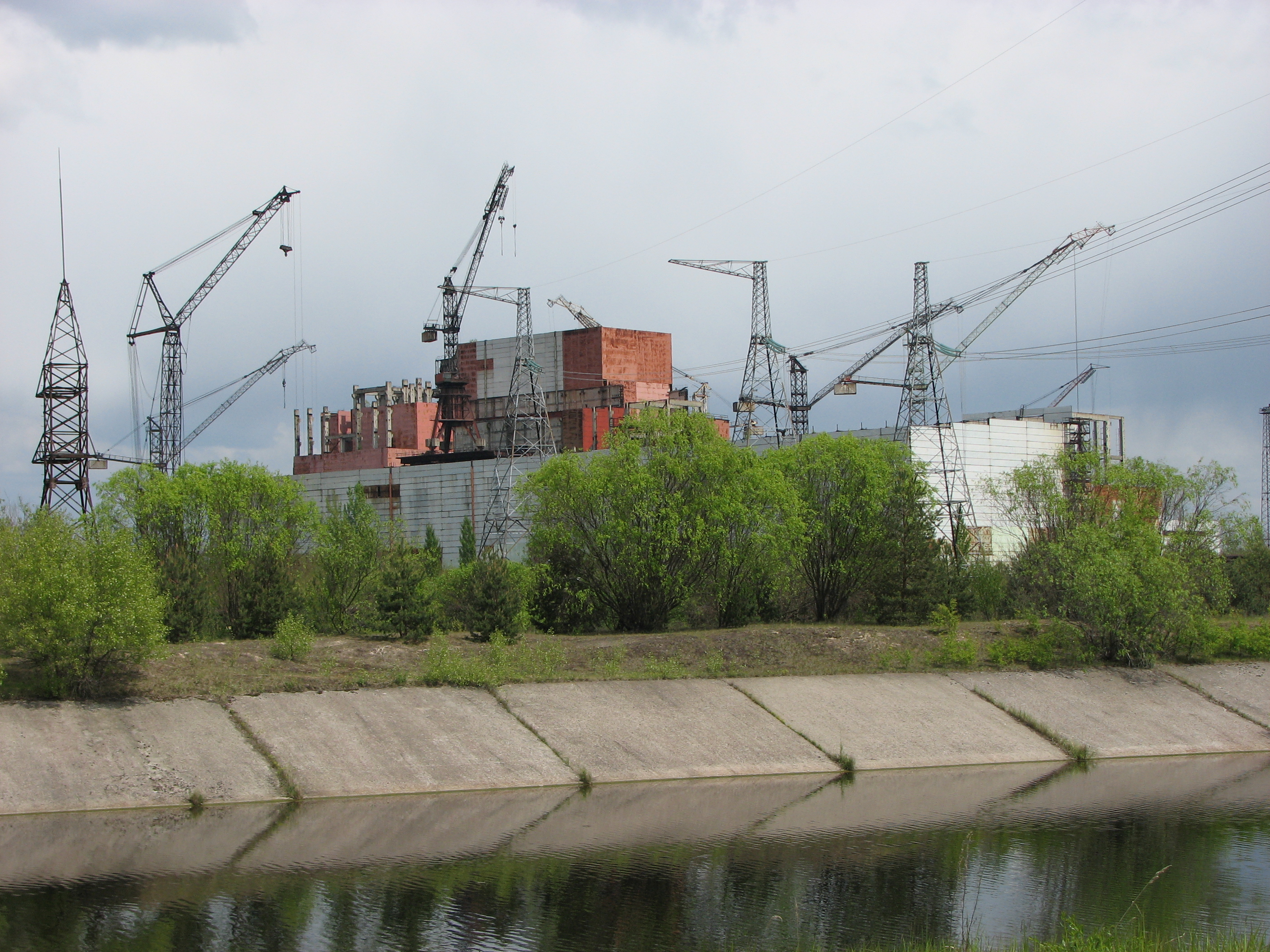 5 and 6 reactors in Chernobyl Nuclear Plant, Ukraine.